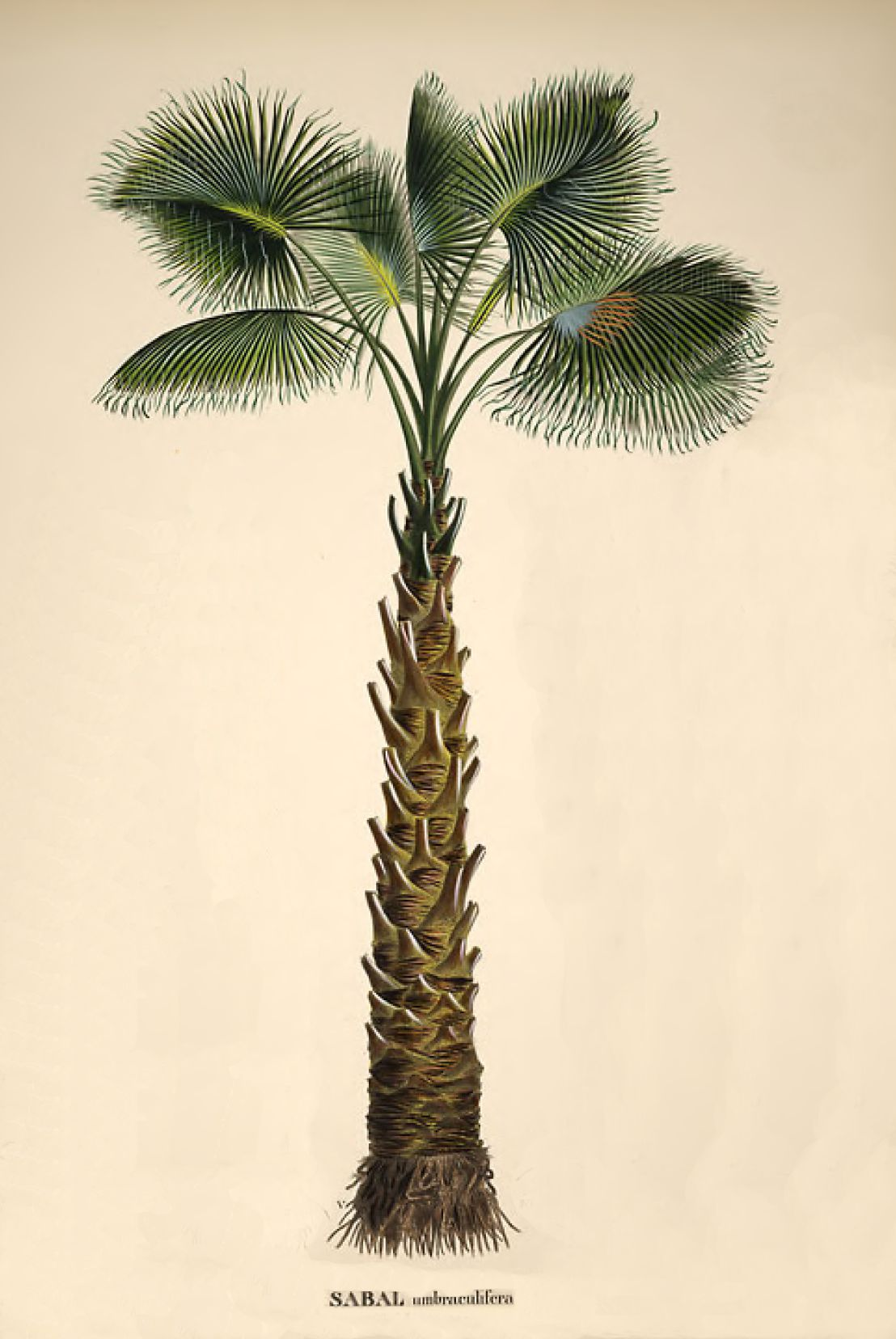 Sabal palmetto (=Sabal umbraculifera) "Historia naturalis palmarum"